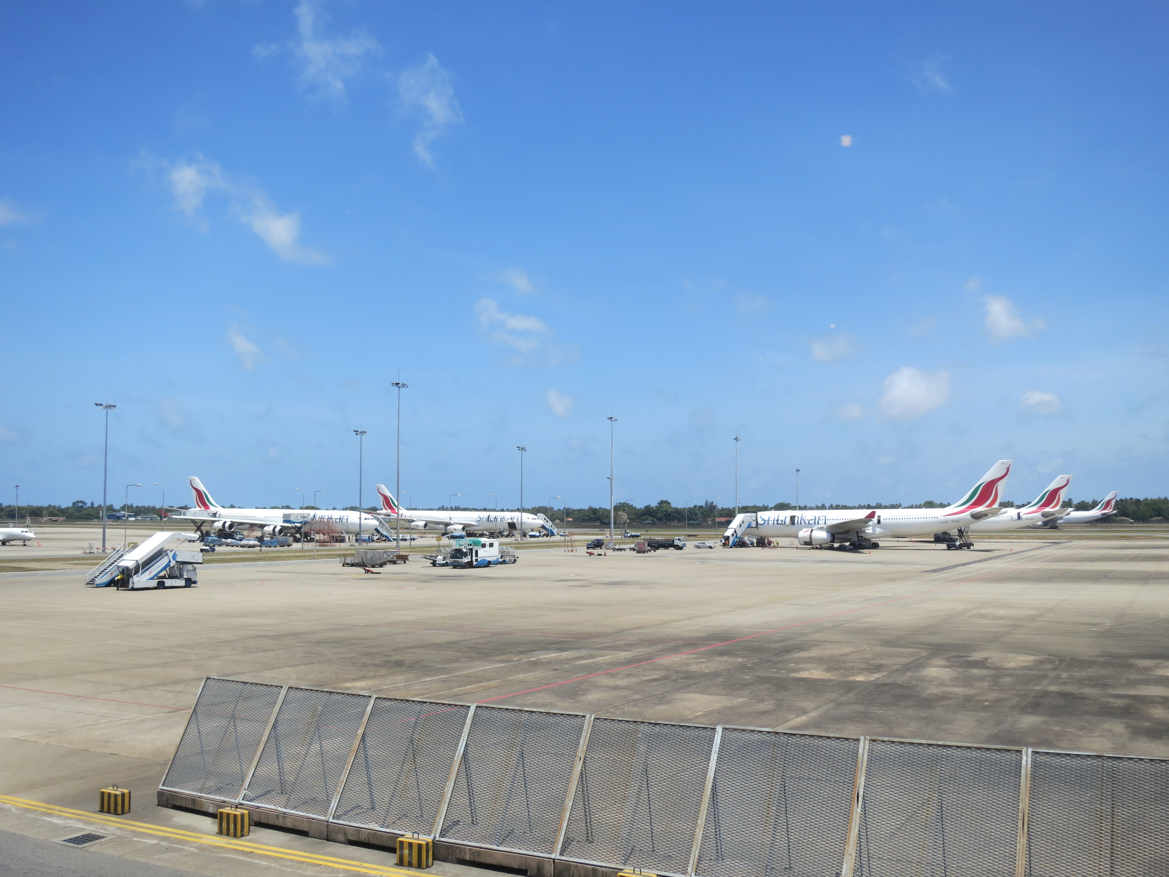 No description